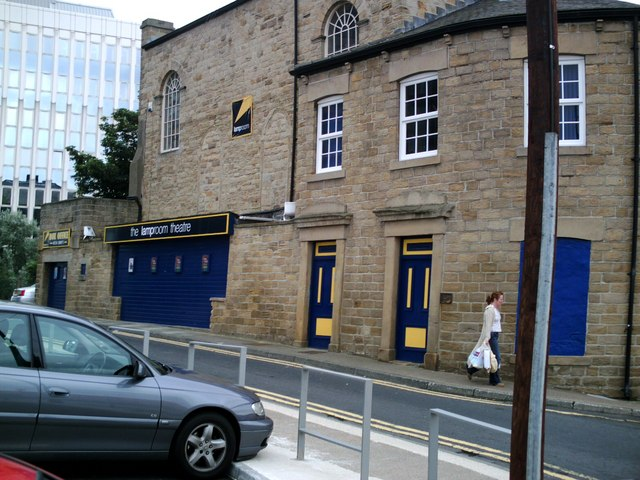 The Lamproom Theatre - Westgate